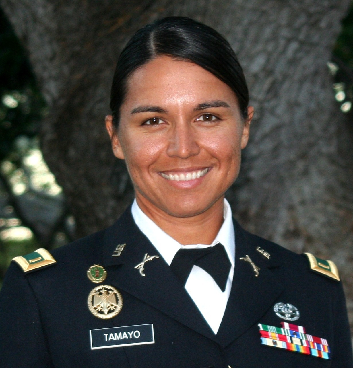 Photo of 2LT Tamayo: Second Lieutenant Tulsi Gabbard Tamayo of the Hawaii Army National Guard.